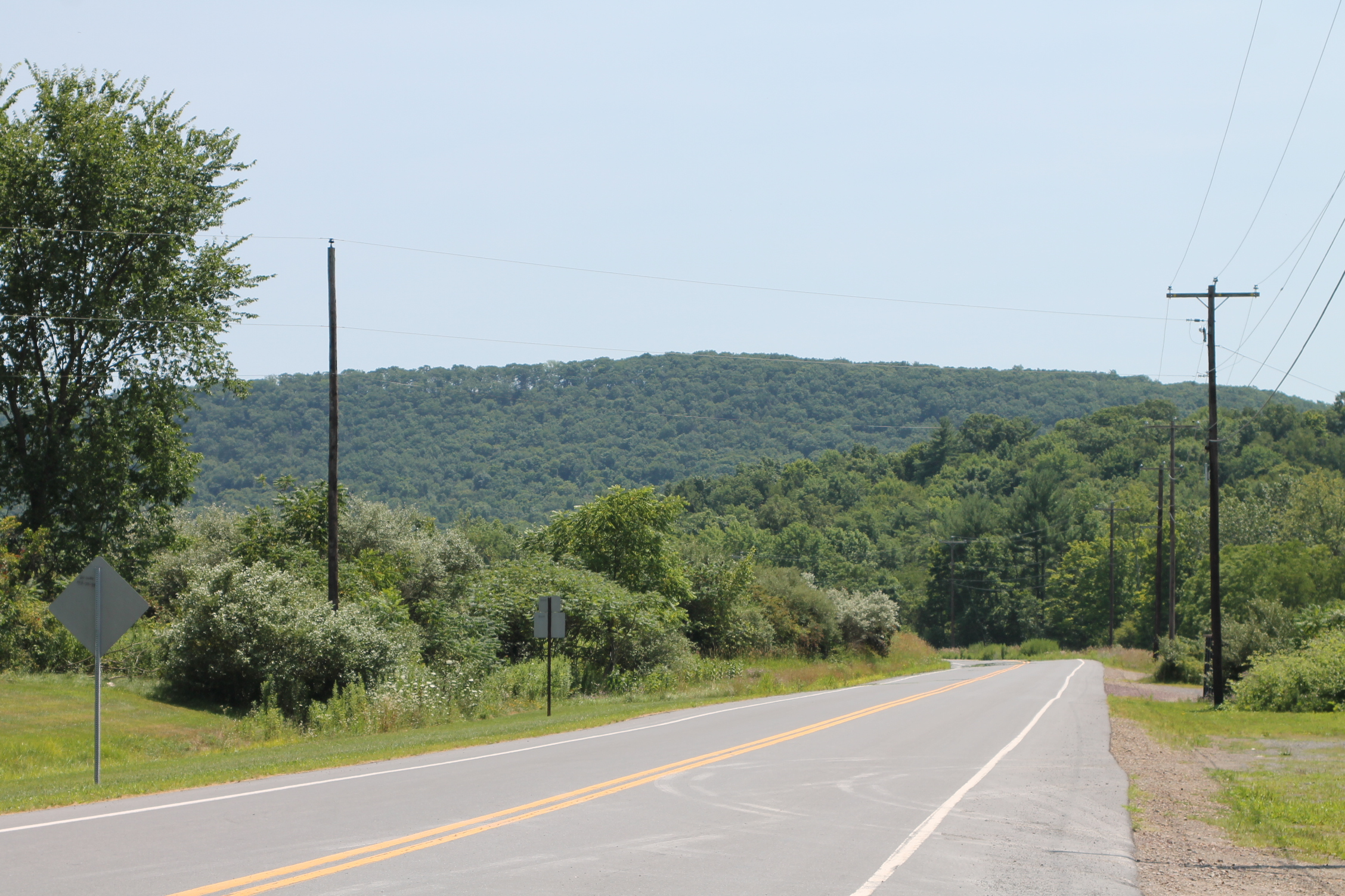 Hill in Madison Township, Columbia County, Pennsylvania. The road is Eyersgrove Road. This picture looks roughly south.